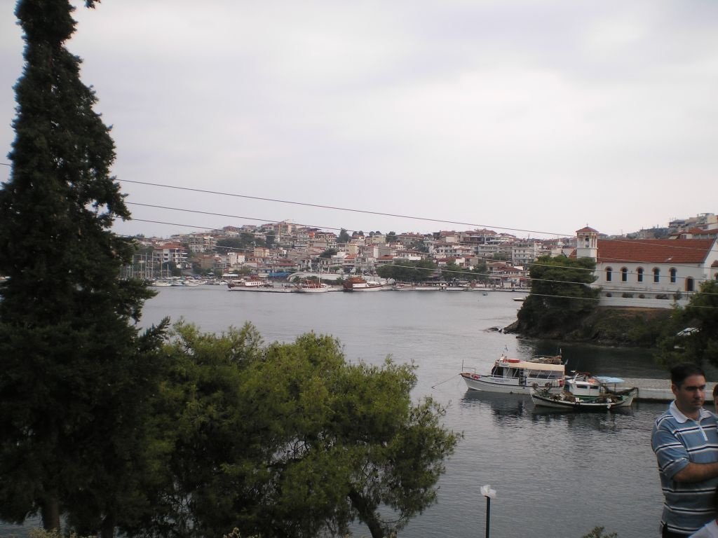 View upon Neos Marmaras, Chalcidice, Greece